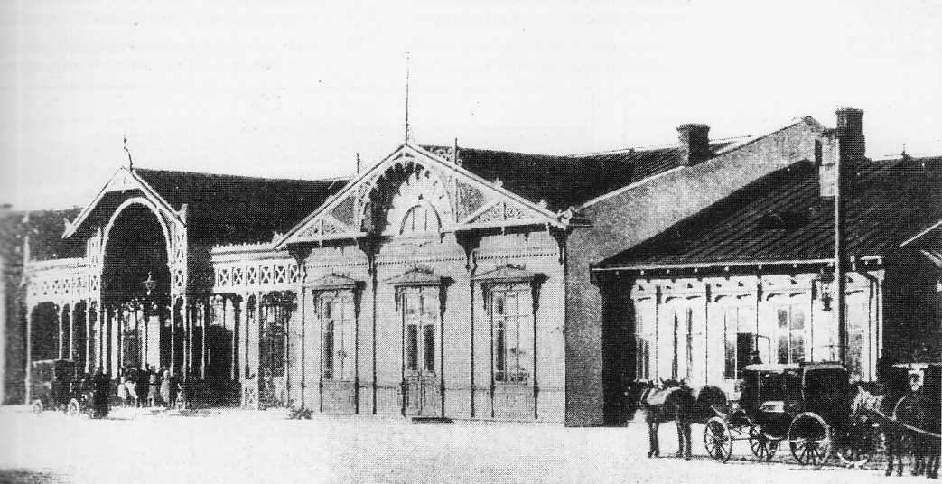 Kovel rail station (1877), now Warszawa Gdanska, Poland